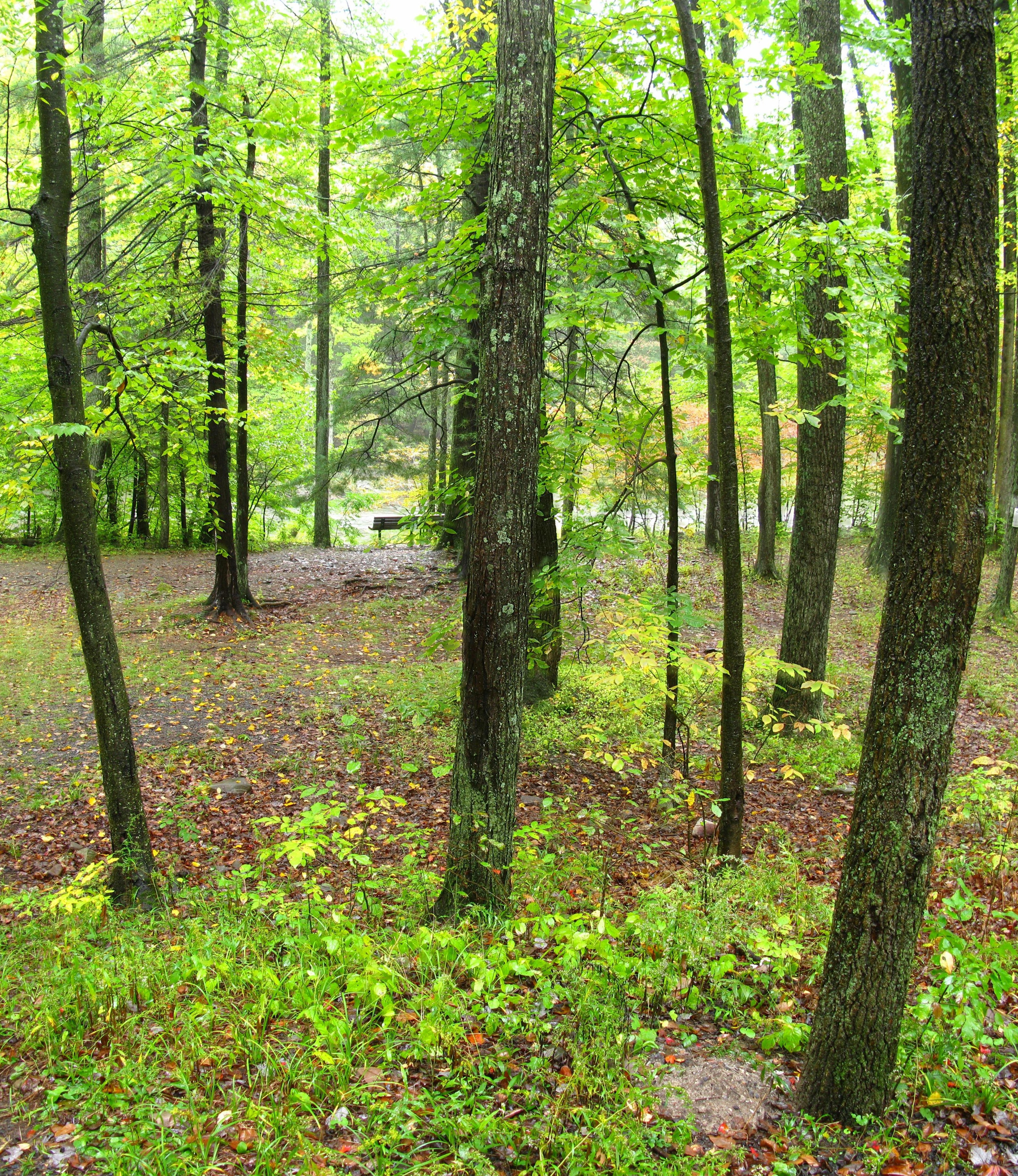 Woods in Poe Paddy State Park